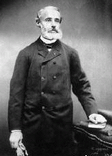 A photograph of Gaston PlantÃ©. Photographer's identity is unkonw, but since the subject died more than a century ago this is certainly public domain now.